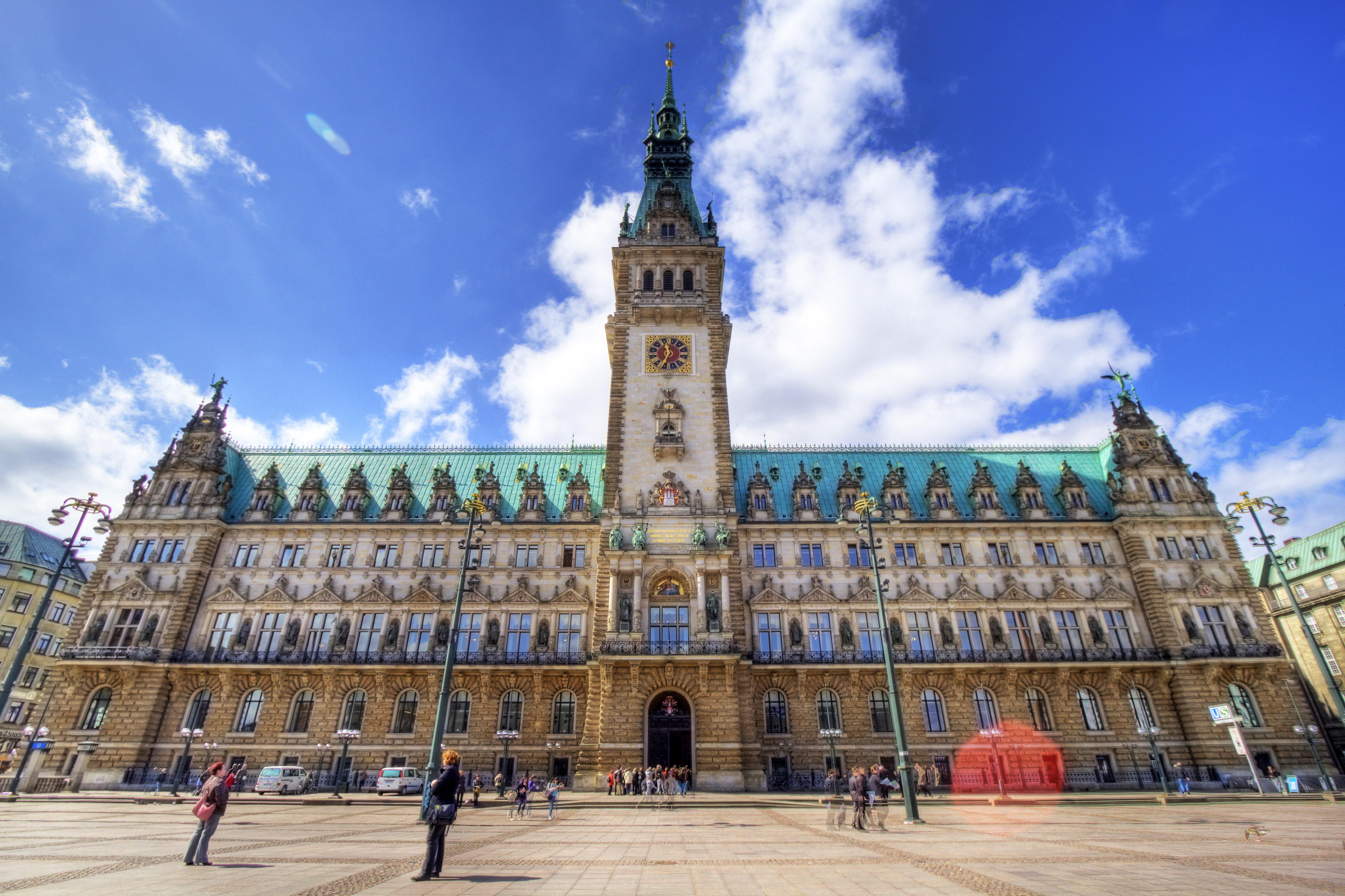 The city hall of Hamburg, Germany.